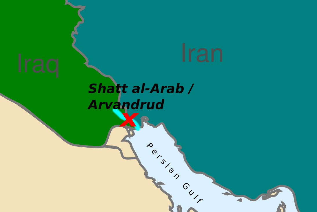 Location of the incident on Shatt al Arab / Arvandrud